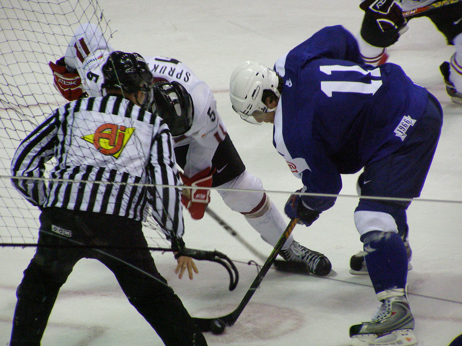 Latvia VS Slovenia (IIHF World Hockey Championship in Halifax NS, May 6 2008)